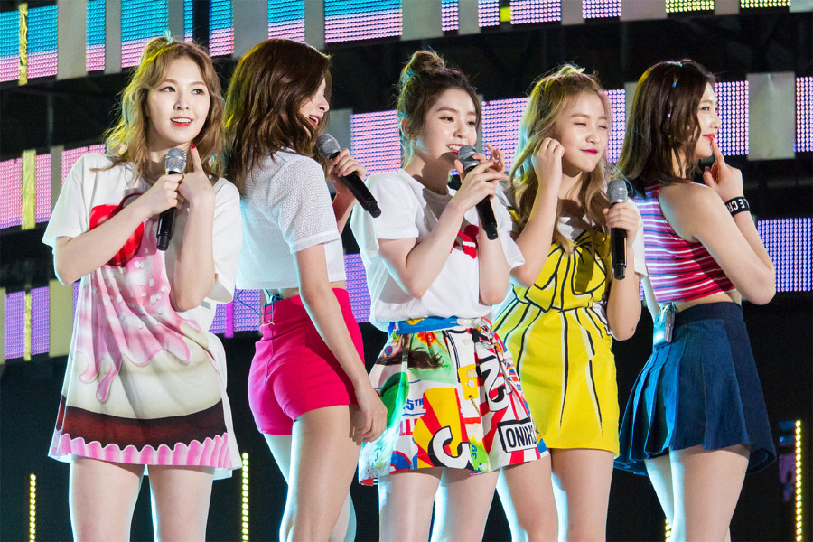 Red Velvet performing at MBC Thank You Festival